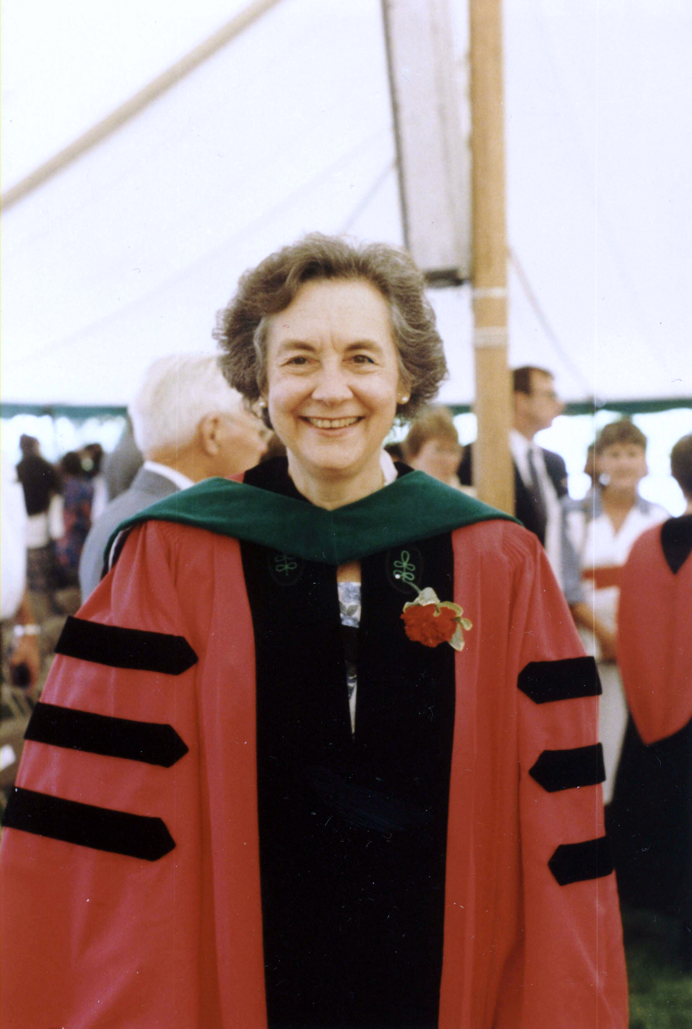 HMS Commencement photo of Dr. Carola Eisenberg, taken while she was Dean of Students at Harvard Medical School